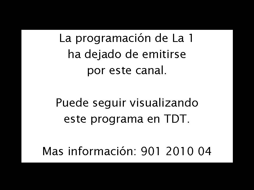 Analog television shut down in Spain between 2009 and 2010.